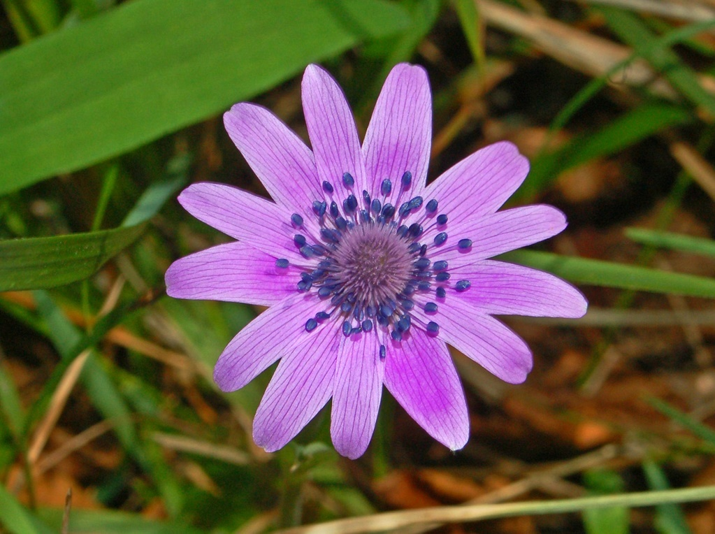 Anemone hortensis - Genova, Italy